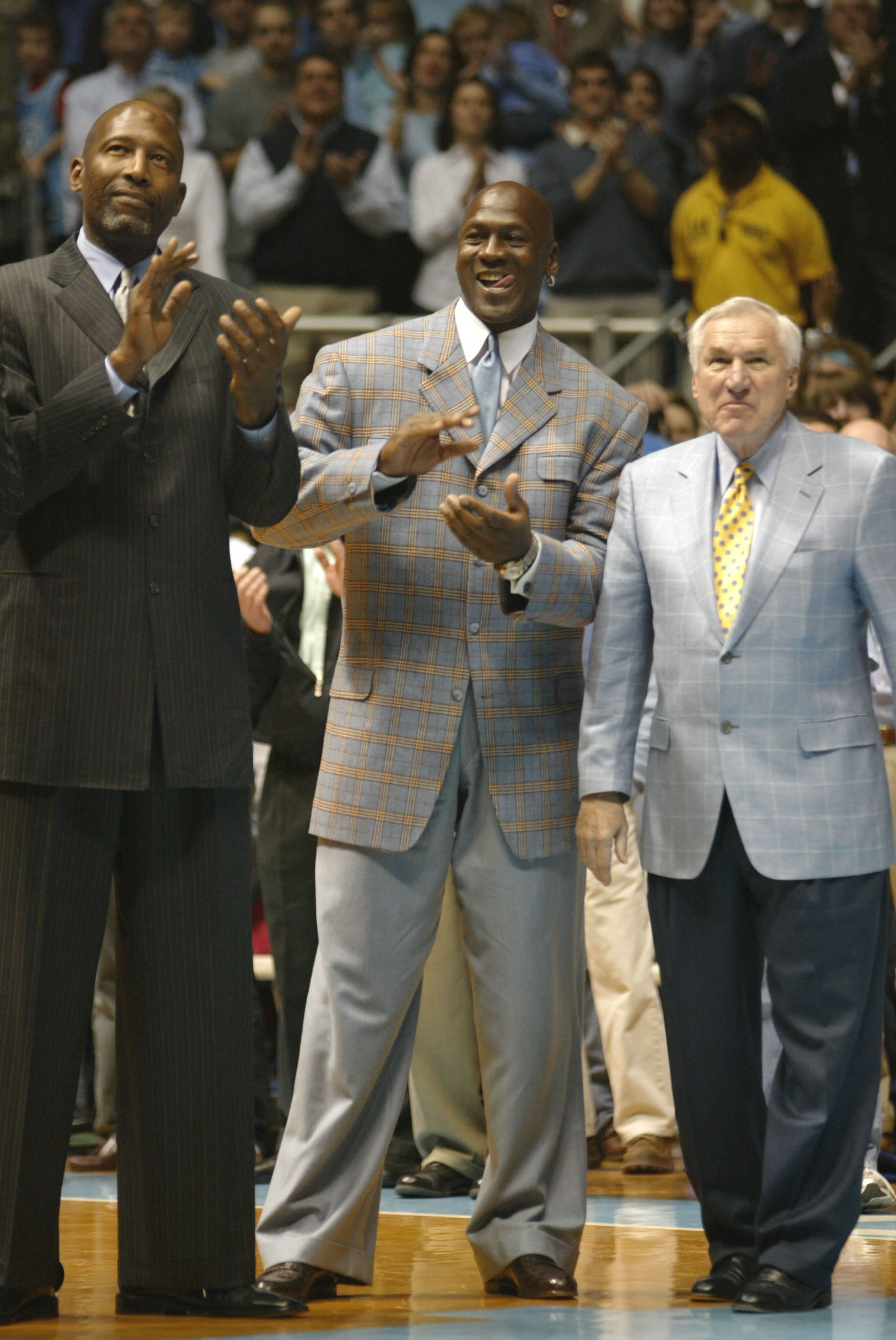 Michael Jordan, Dean Smith, and James Worthy at UNC Basketball game. Feb. 10, 2007.